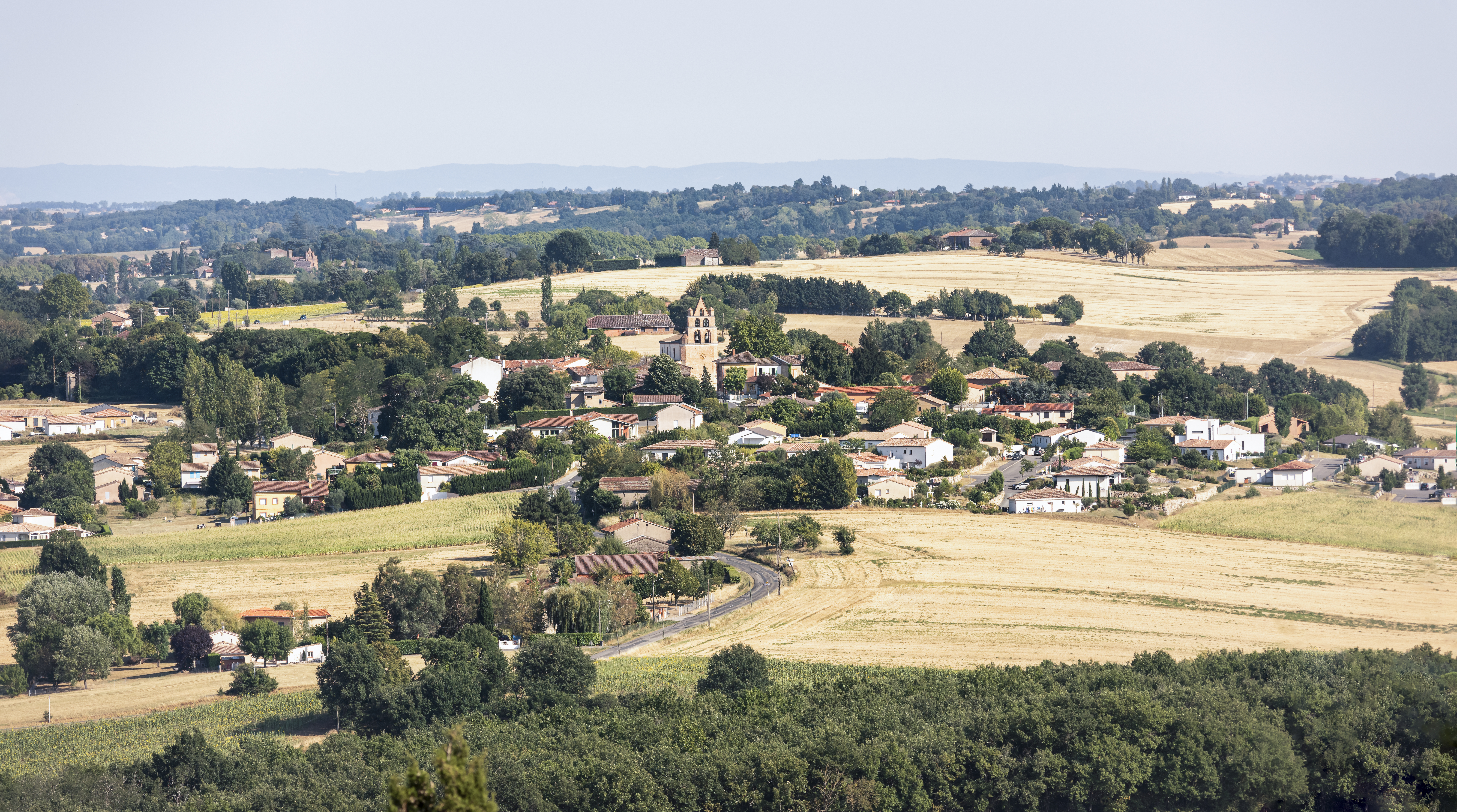 Paulhac, Haute-Garonne France - seen from Montjoire